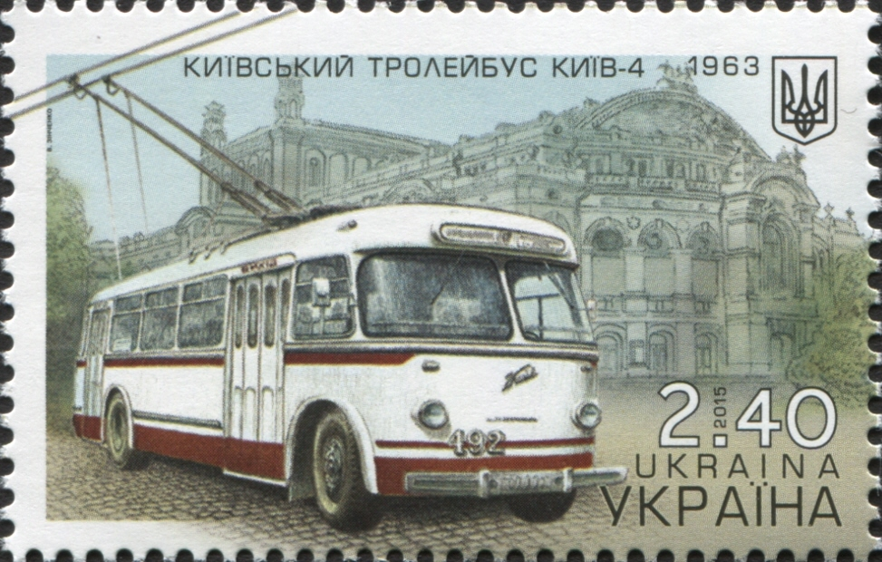 Stamps of Ukraine, 2015